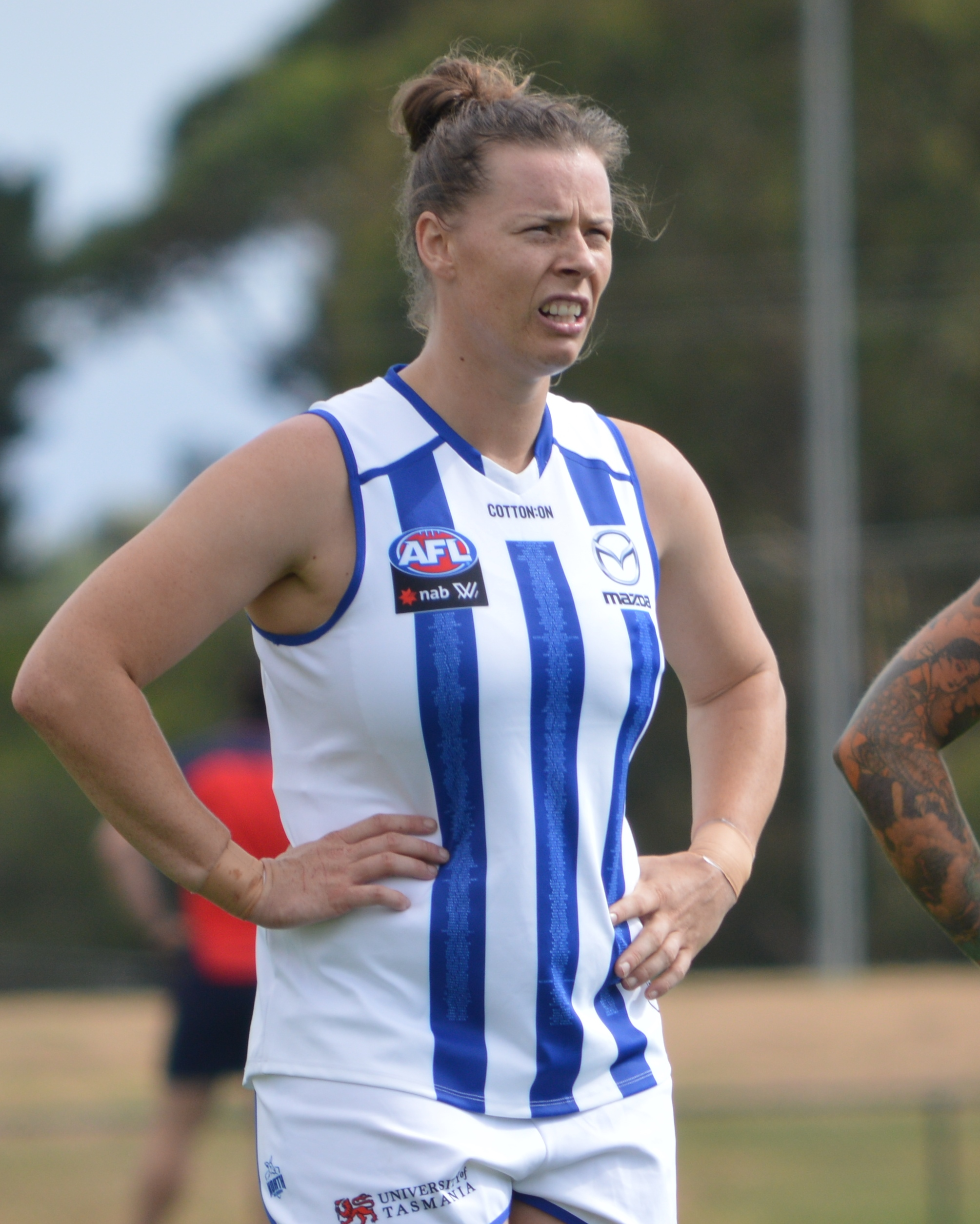 Brittany Gibson with North Melbourne during a pre-season match in January 2019.